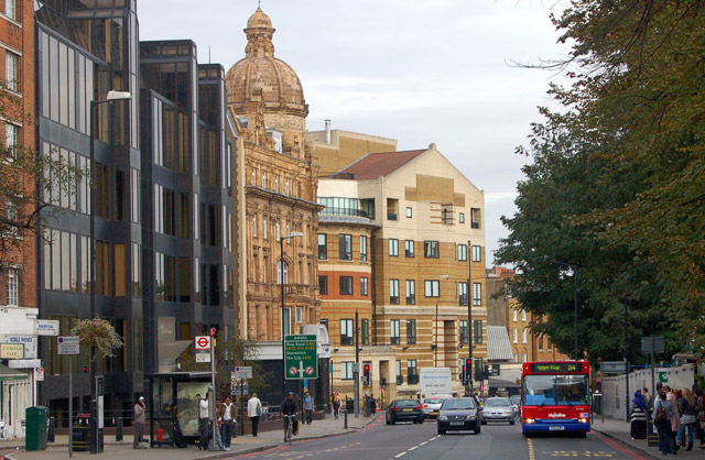 The Angel, Islington, from Pentonville Road Looking east along Pentonville Road to The Angel. The cuppola is a prominent local landmark.